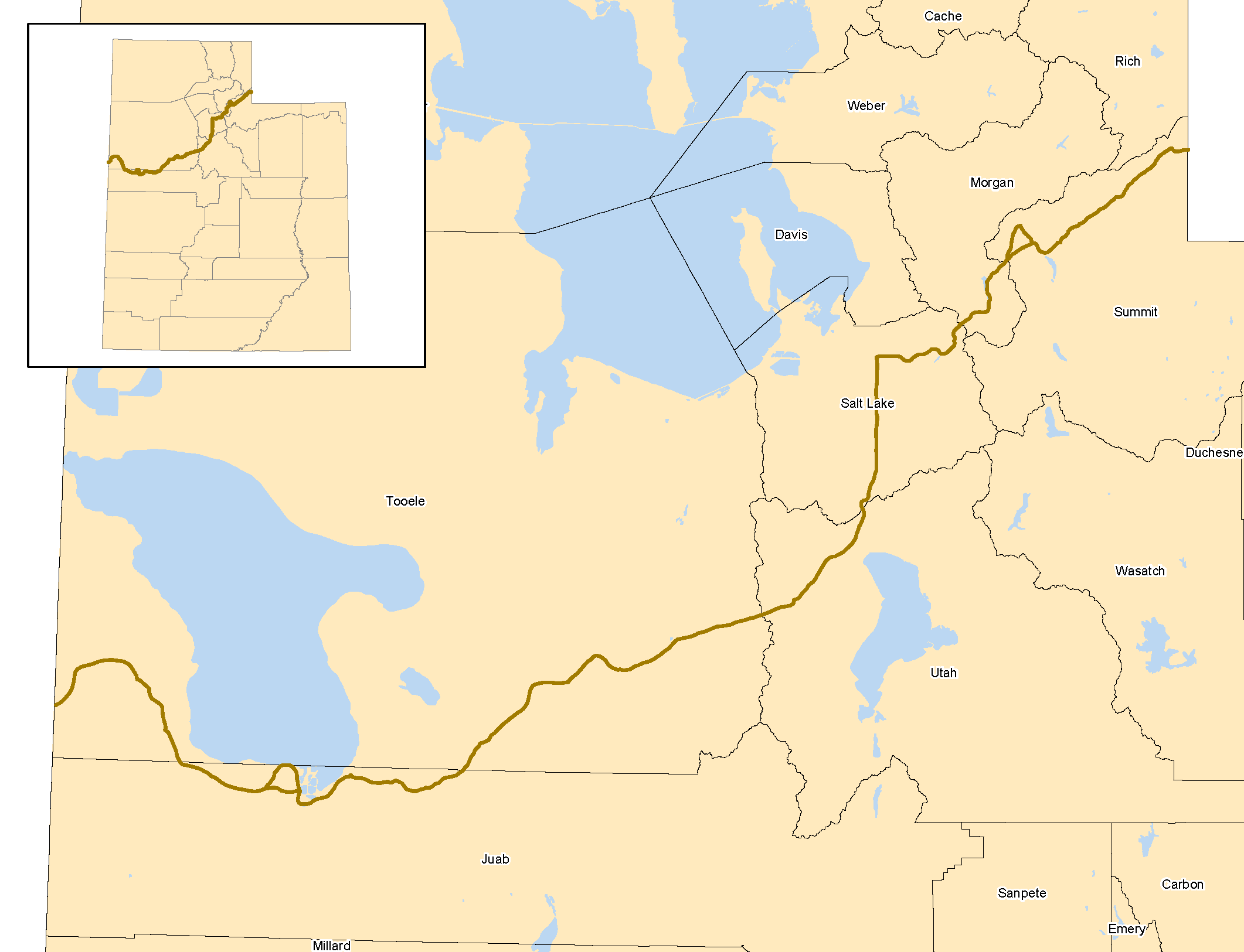 Pony Express Trail through Utah